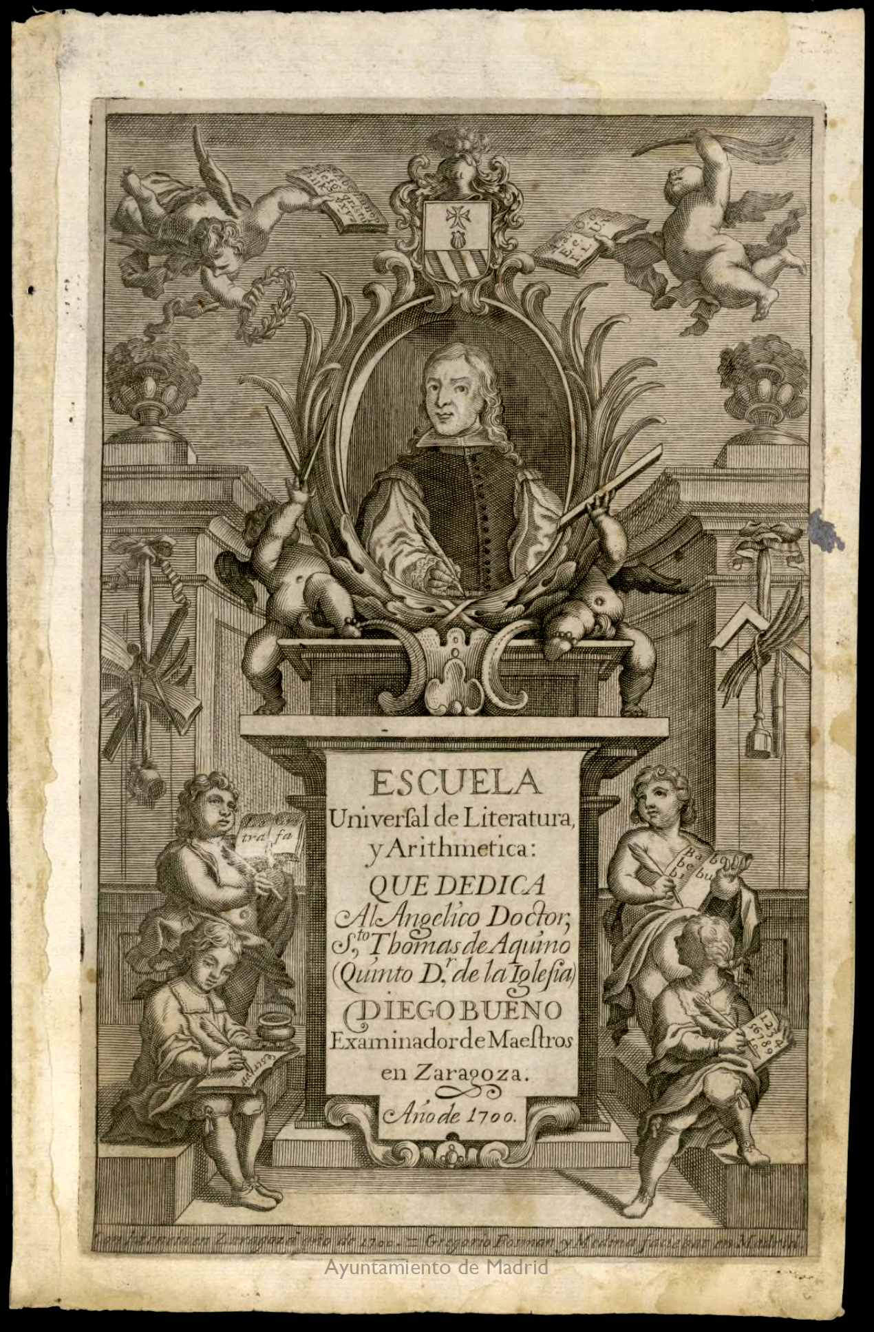 Diego Bueno's portrait in his book Arte de leer con elegancia (1700). Copperplate engraving, made by Gregorio Fosman or Forsman in Madrid.